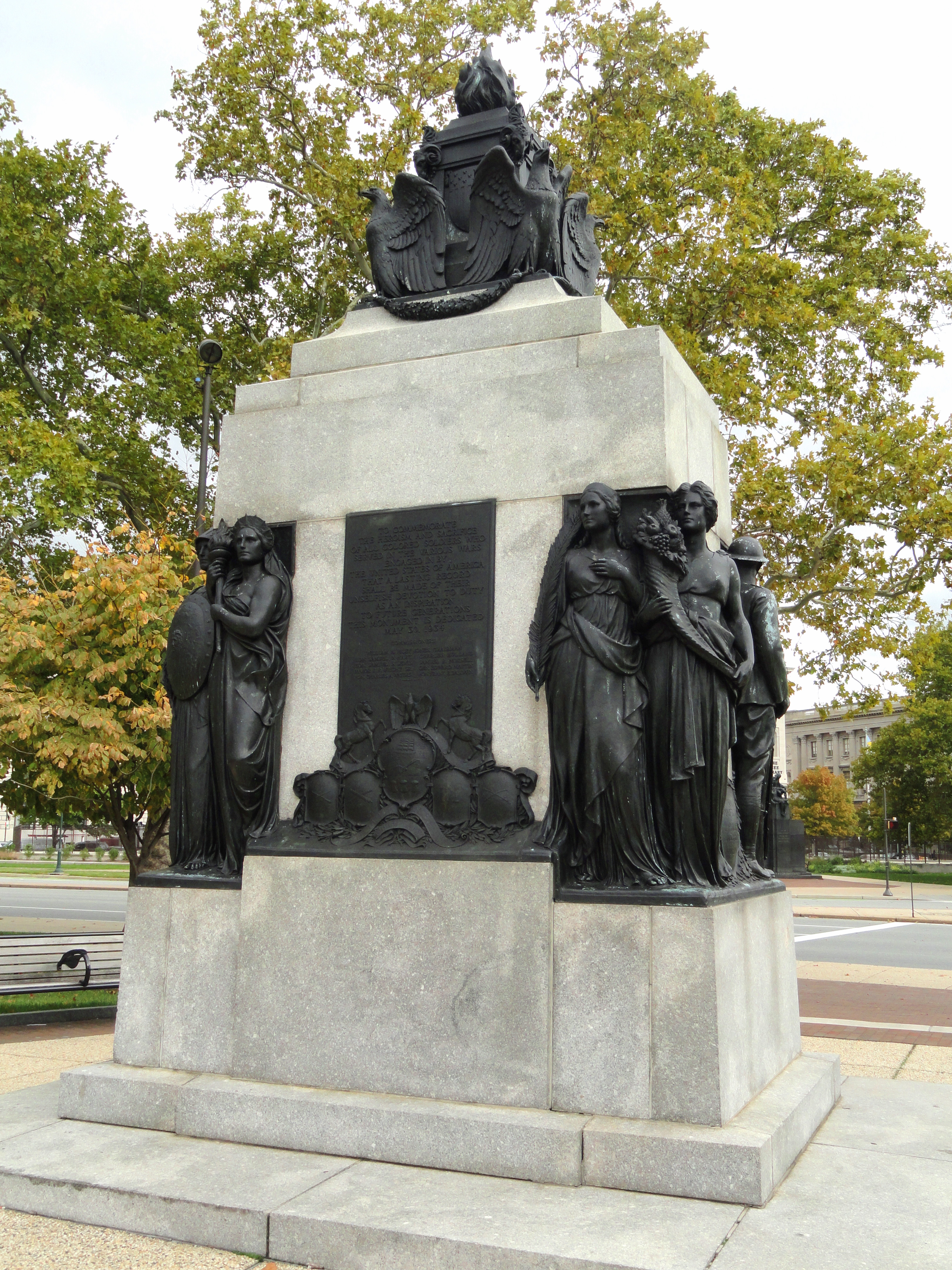 All Wars Memorial to Colored Soldiers and Sailors, sculpted by J. Otto Schweizer, 1934. Currently located on Landsdowne Drive near Memorial Hall (West side of Fairmount Park), Philadelphia, Pennsylvania, USA. Smithsonian American Art Museum's Art Inventories Catalog: Control number PA000002 (dcMem ID #6568 ) .